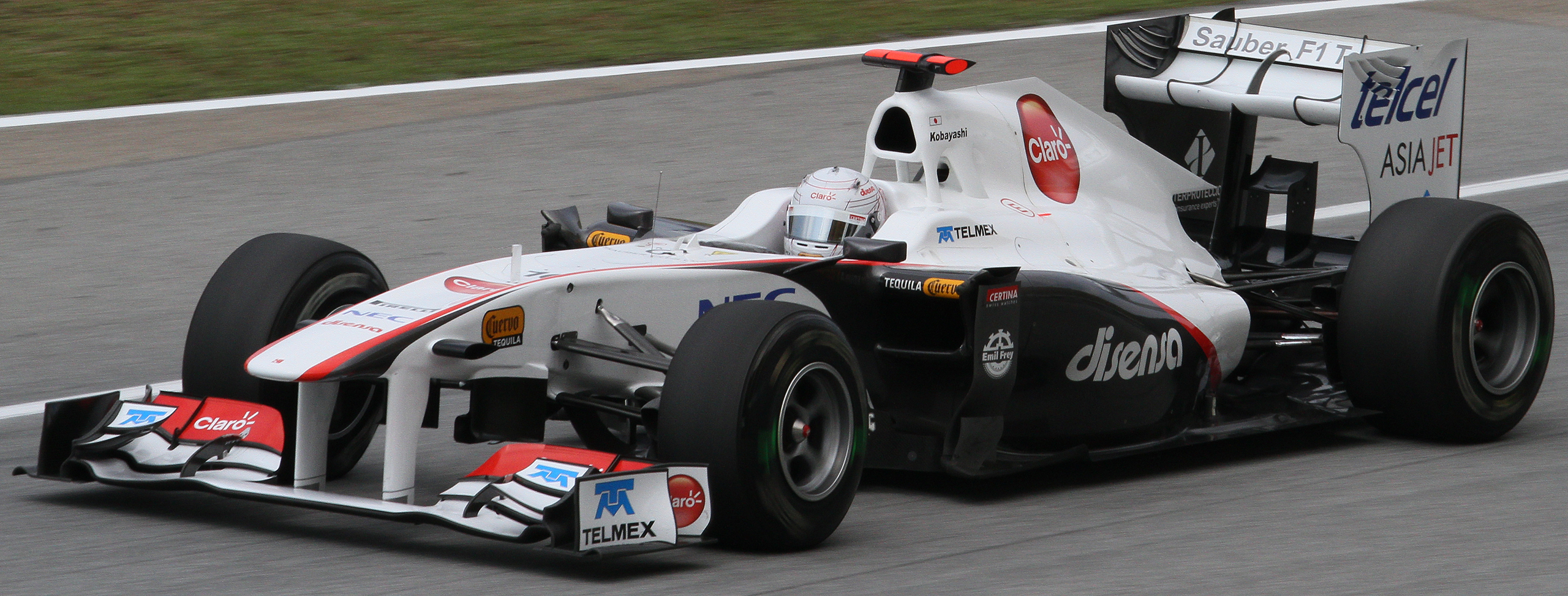 Formula One 2011 Rd.2 Malaysian GP: Kamui Kobayashi (Sauber) during the first practice session on Friday.